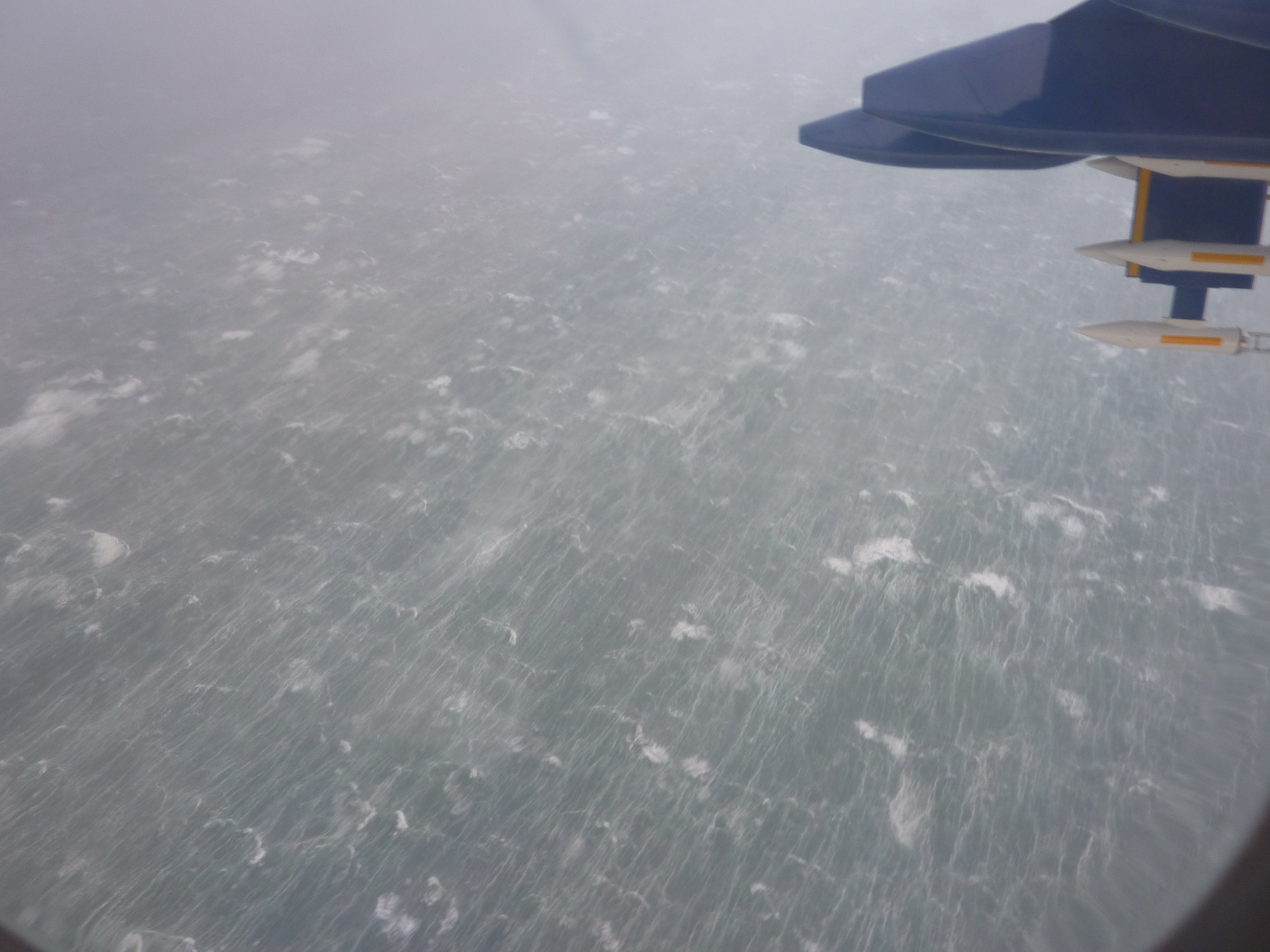 High waves, white caps and foam streaks off the west coast of Scotland during storm "Friedhelm" on 8th December 2011 as photographed from about 450m above sea level onboard the UK research aircraft FAAM BAe146.